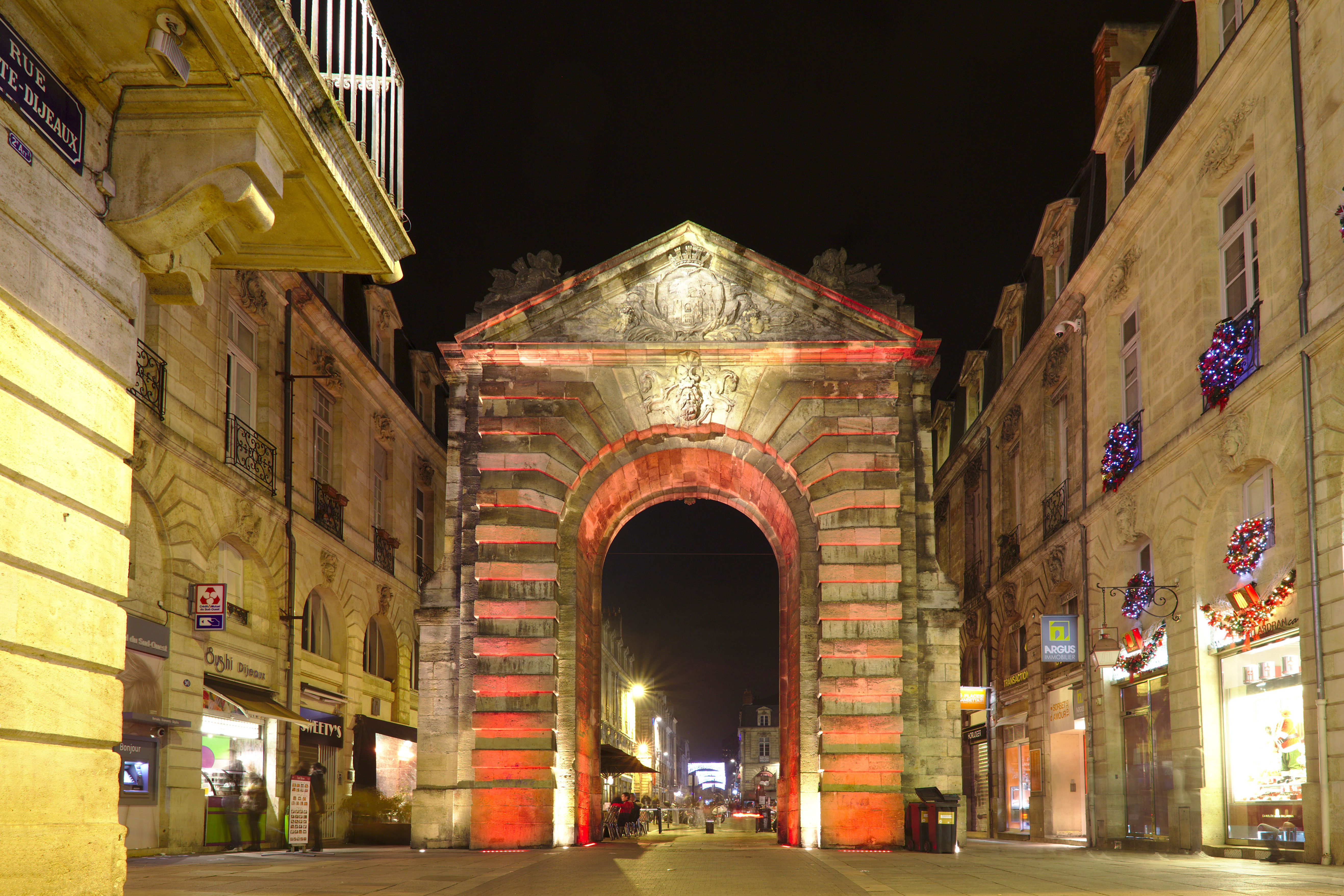 Porte Dijeaux by night